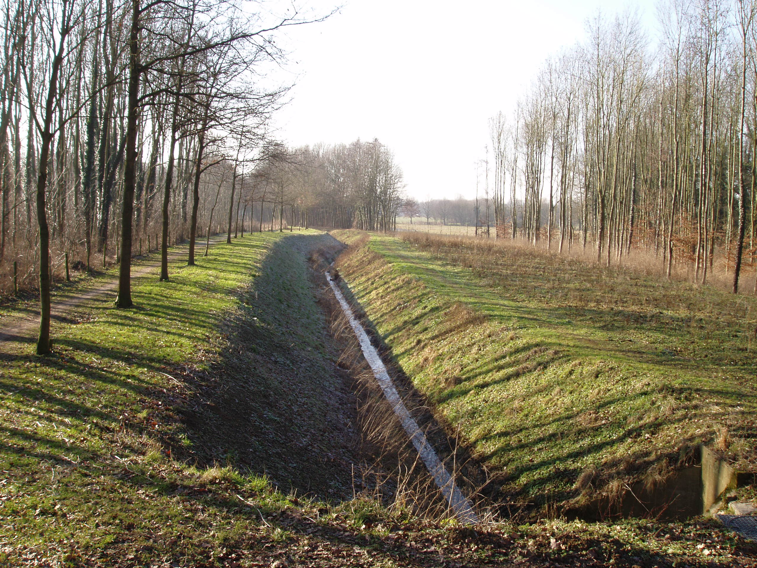 River Voerendaalse Molenbeek near the location of watermill Puttersmolen, Voerendaal, Limburg, Netherlands